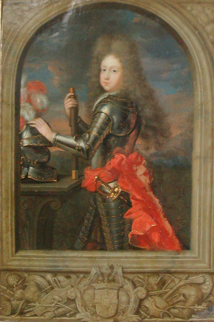 Count Christian Gyldenløve (1674-1703). Source: The Frederiksborg Collection, Item A 4543.